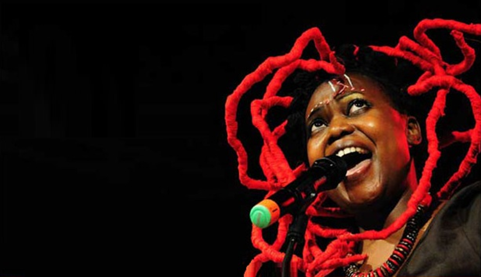 Tshila performing at the Bayimba Festival in Kampala, Uganda.